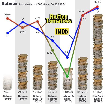 The 7 "Batman" movies, 1966—2008: box office performance (from Box Office Mojo), user ratings (from IMDb), critical reaction (from Rotten Tomatoes), all put into one graph. We already used the graph in our own blog, here. The current graph was generated on August 26, 2008. Licensed under CC BY-SA 3.0.